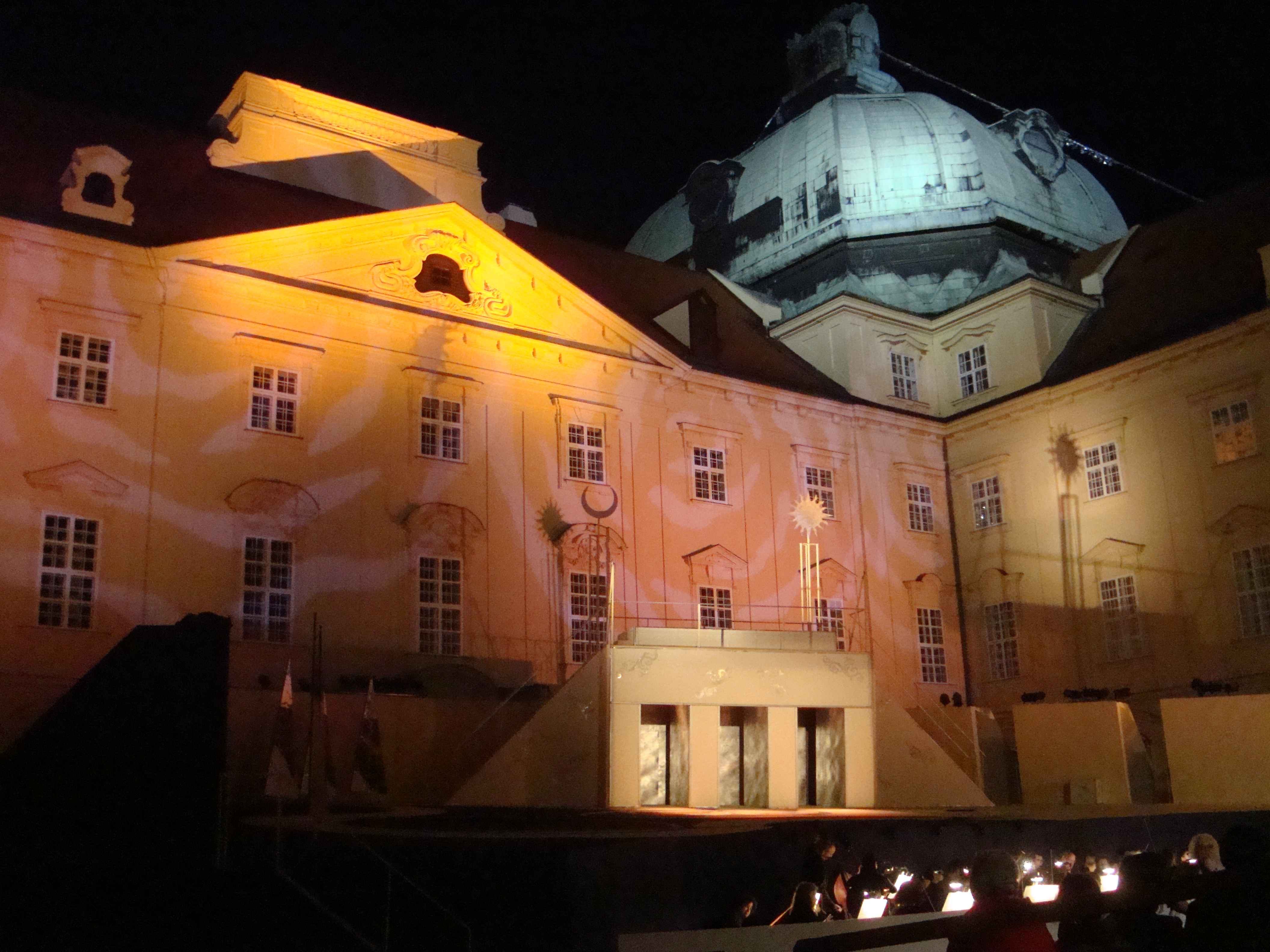 Magic Flute Kaiserhof 8